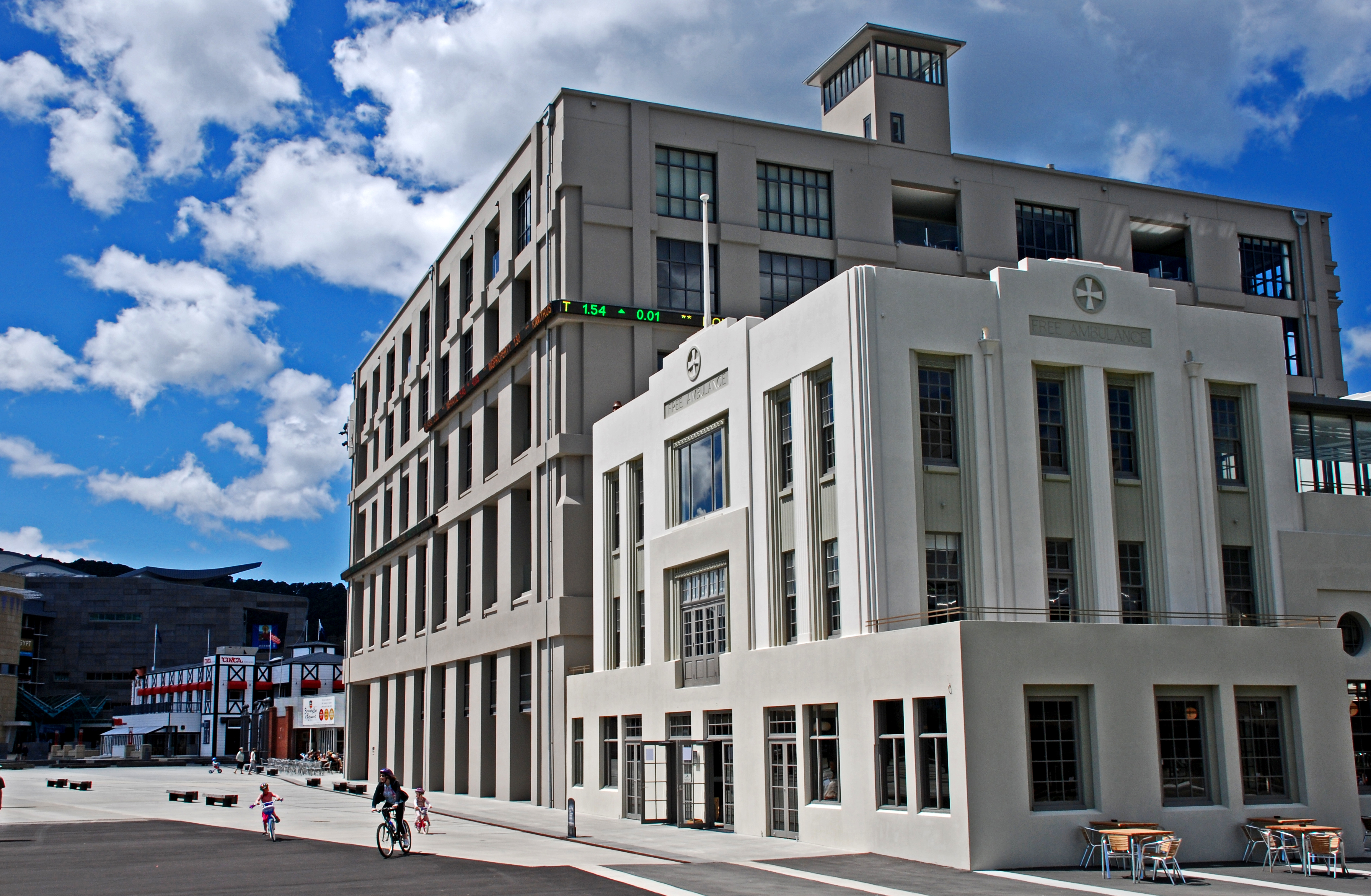 New Zealand Stock Exchange and St. John's Buildings, Wellington, New Zealand, 30 December 2006.